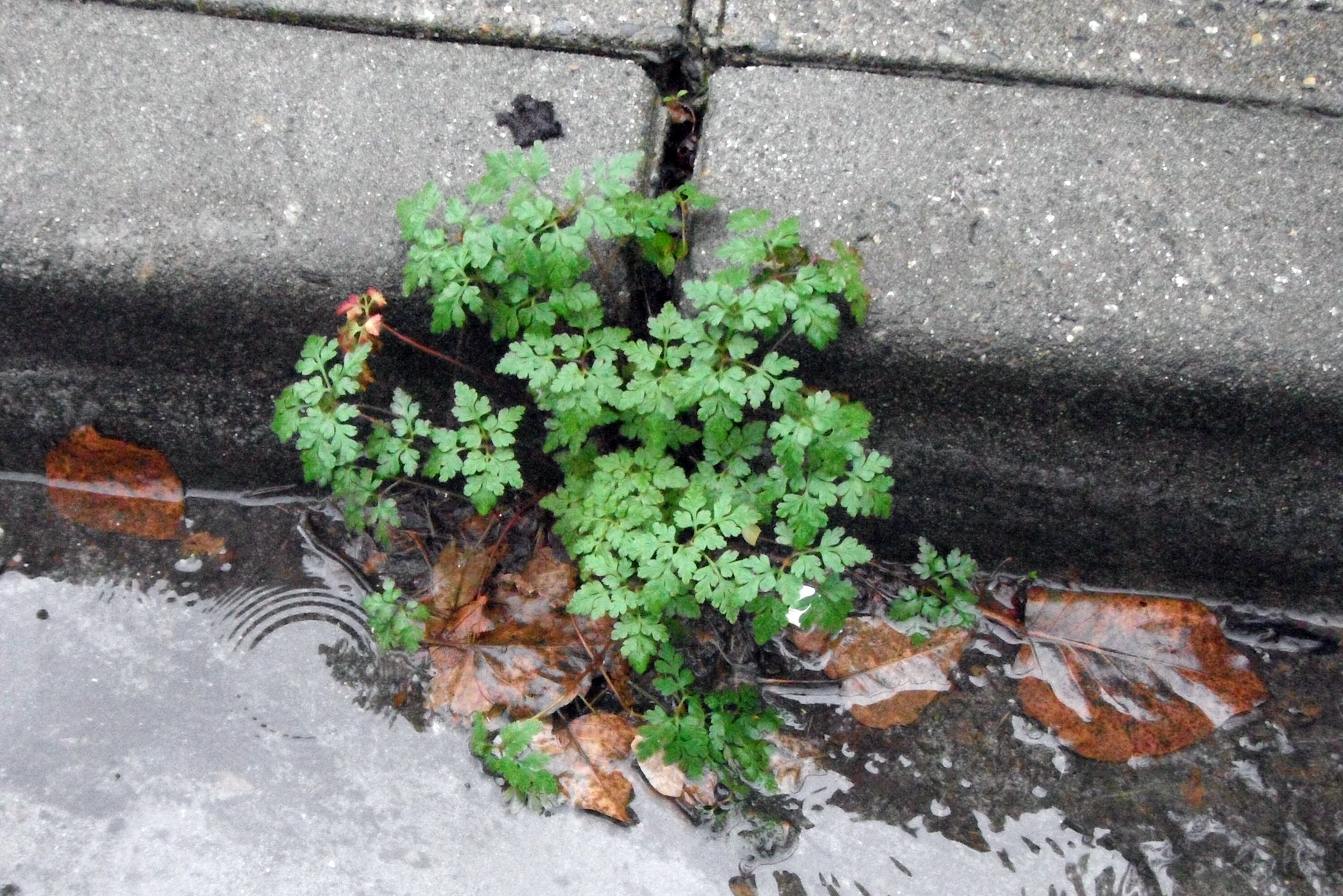 geranium sp.